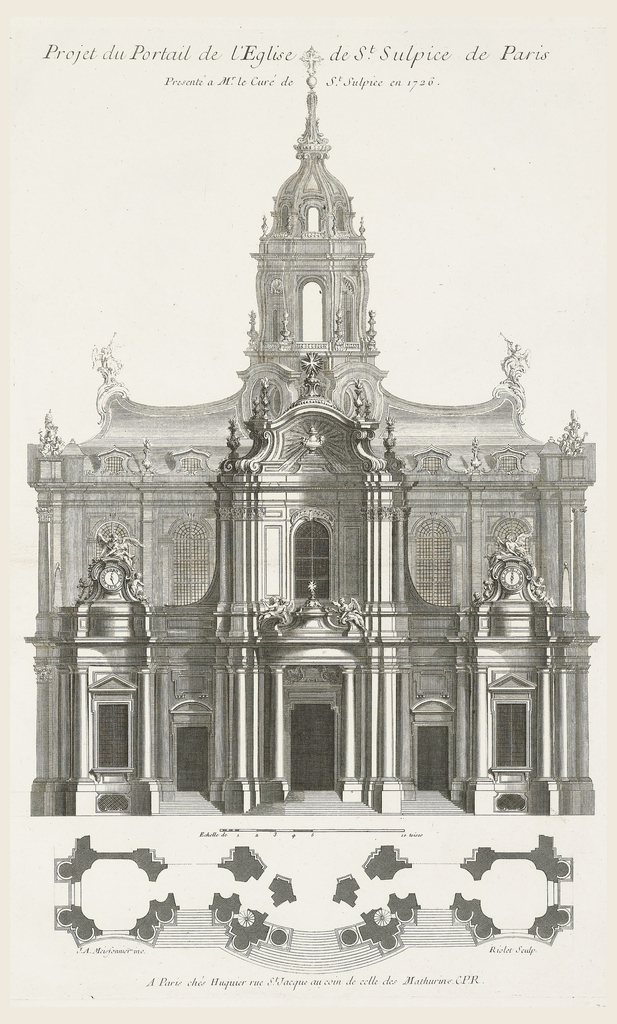 Design for the Portal of the Church of St. Sulpice of Paris